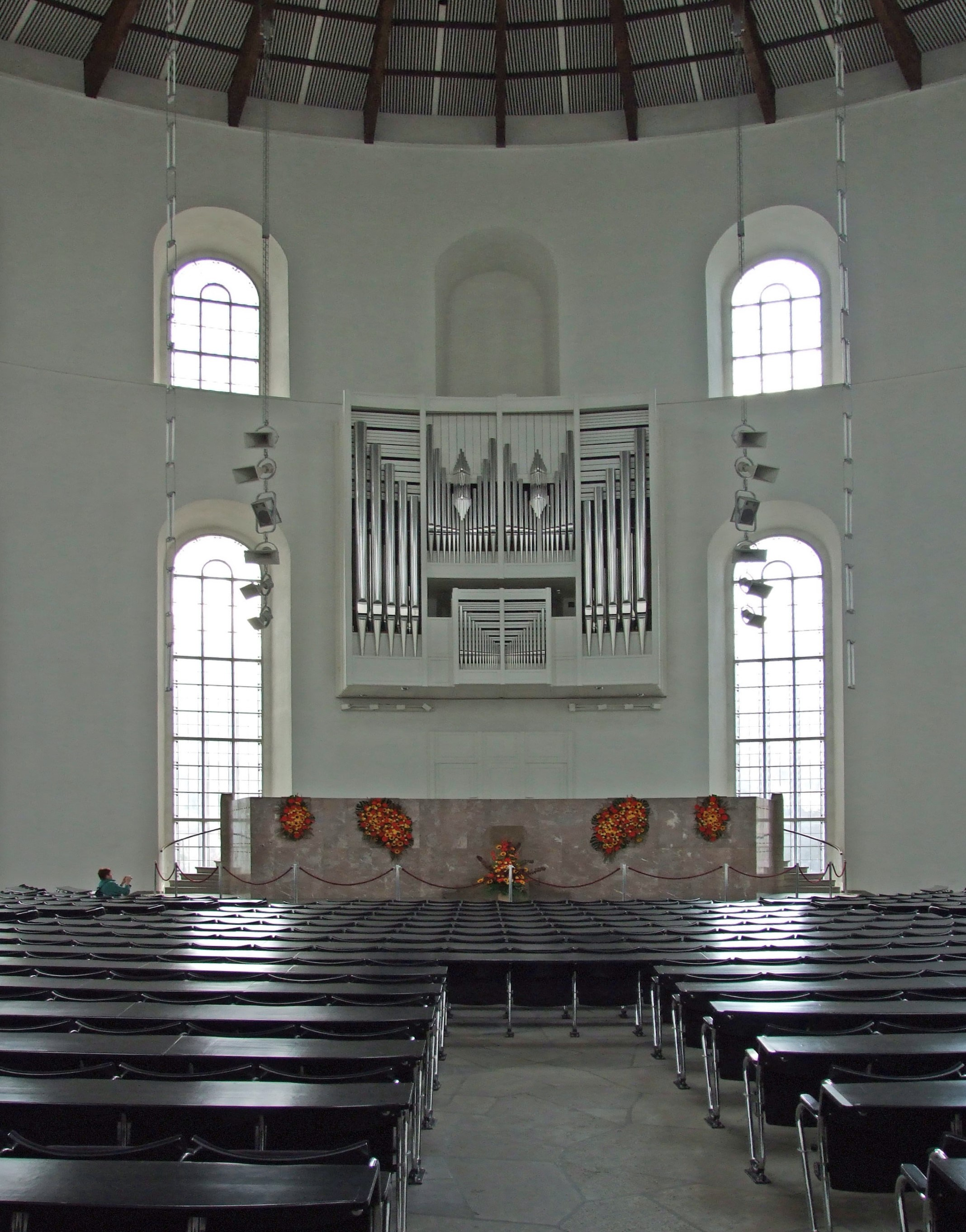 inside Paulskirche (Pauls-Church) with Klais-Organ, in Frankfurt am Main